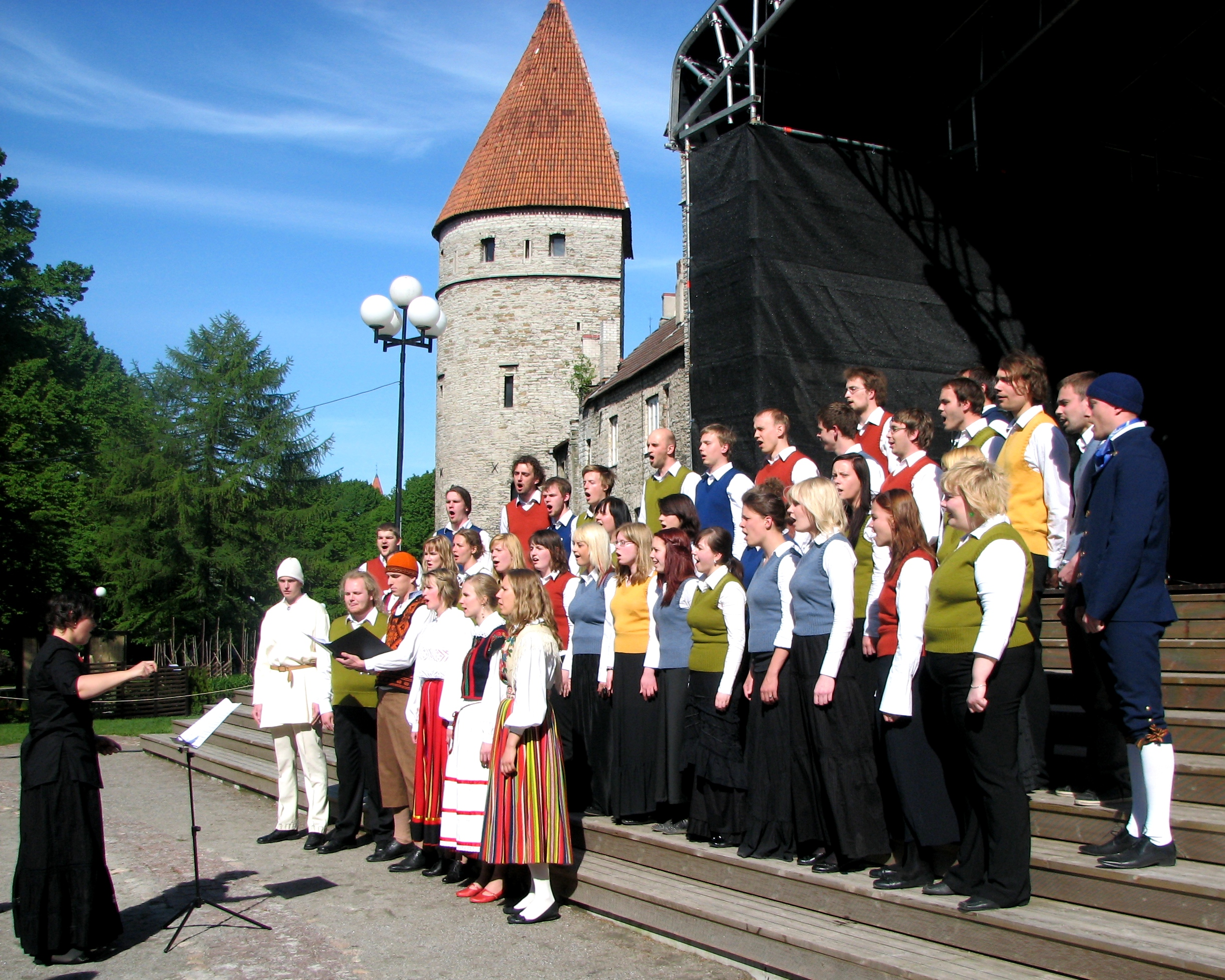 Mixed chorus Vox Populi performing in XXIX Old Town Days of Tallinn